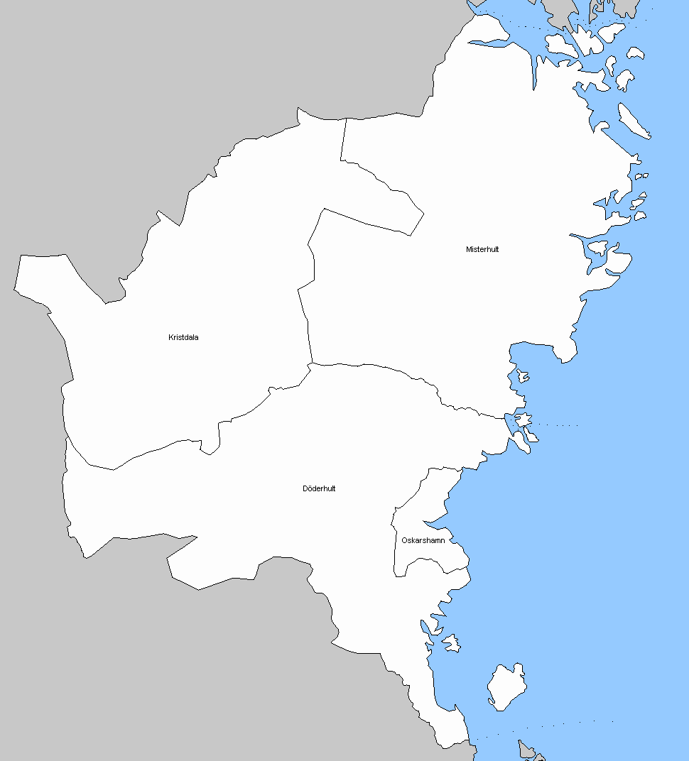 Parishes in Oskarshamn municipality